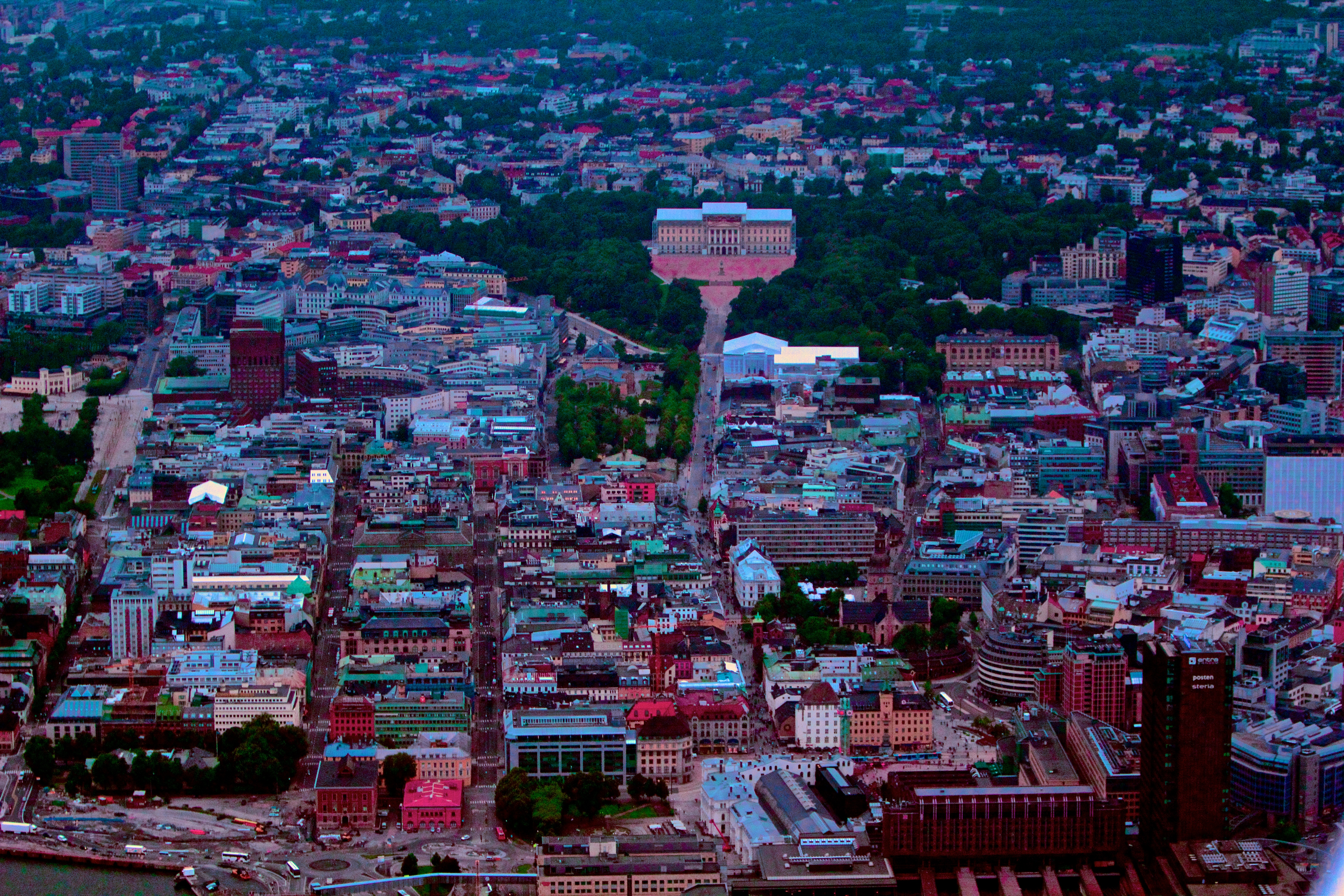 Central Oslo, capital of Norway.